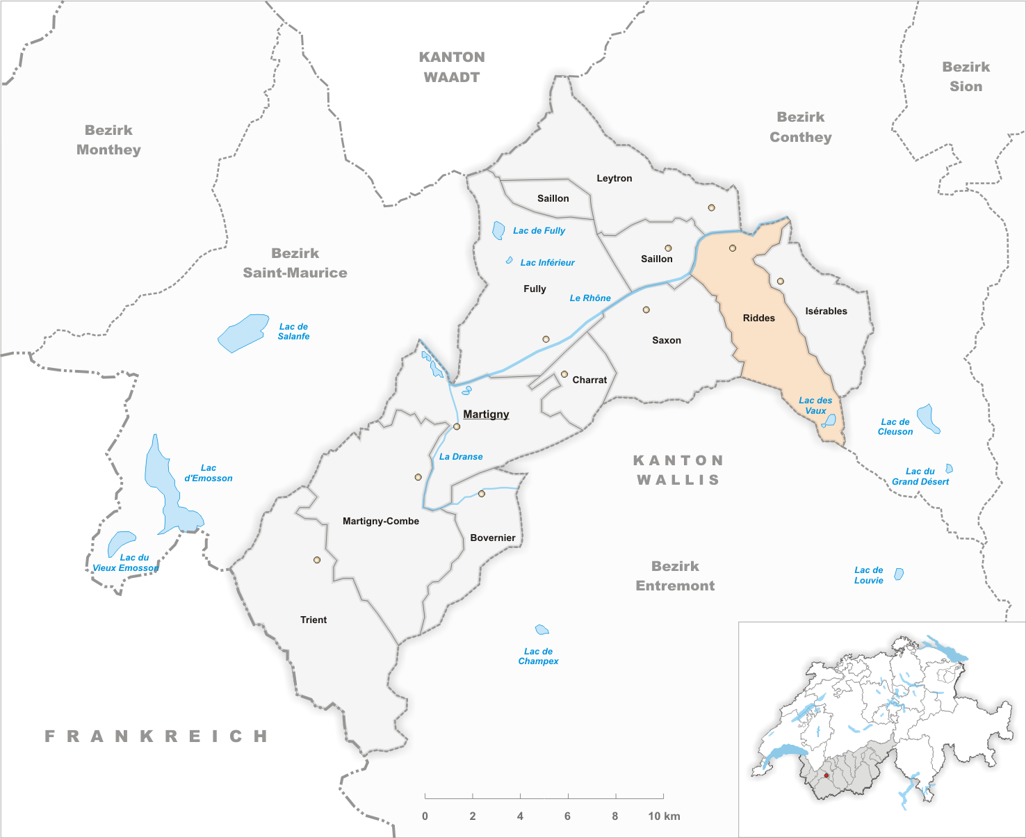 Municipality Riddes